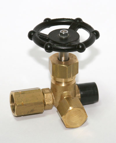 A valve for liquefied petroleum gas